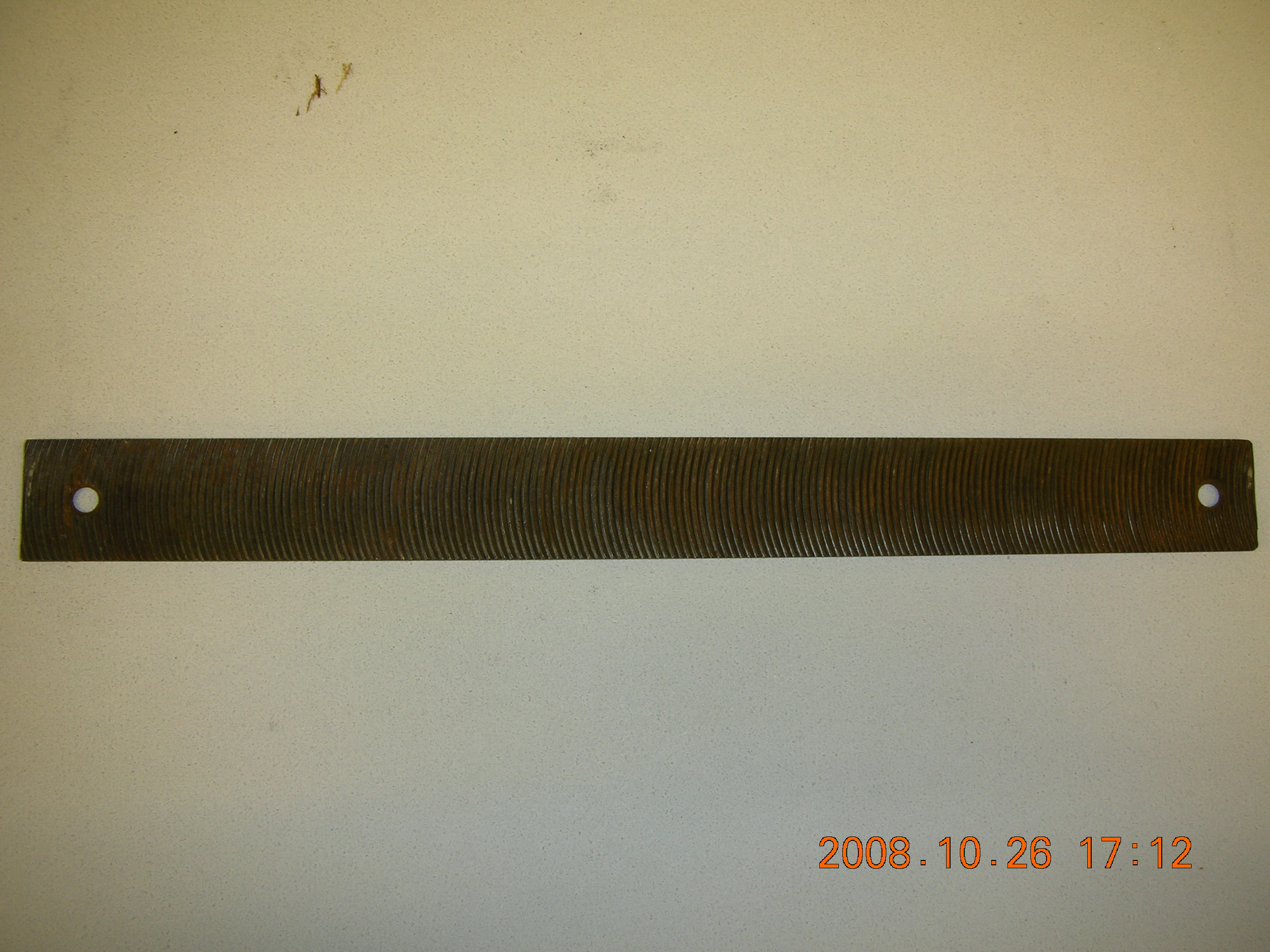 Dreadnought file, fast cutting, suitable for car body work